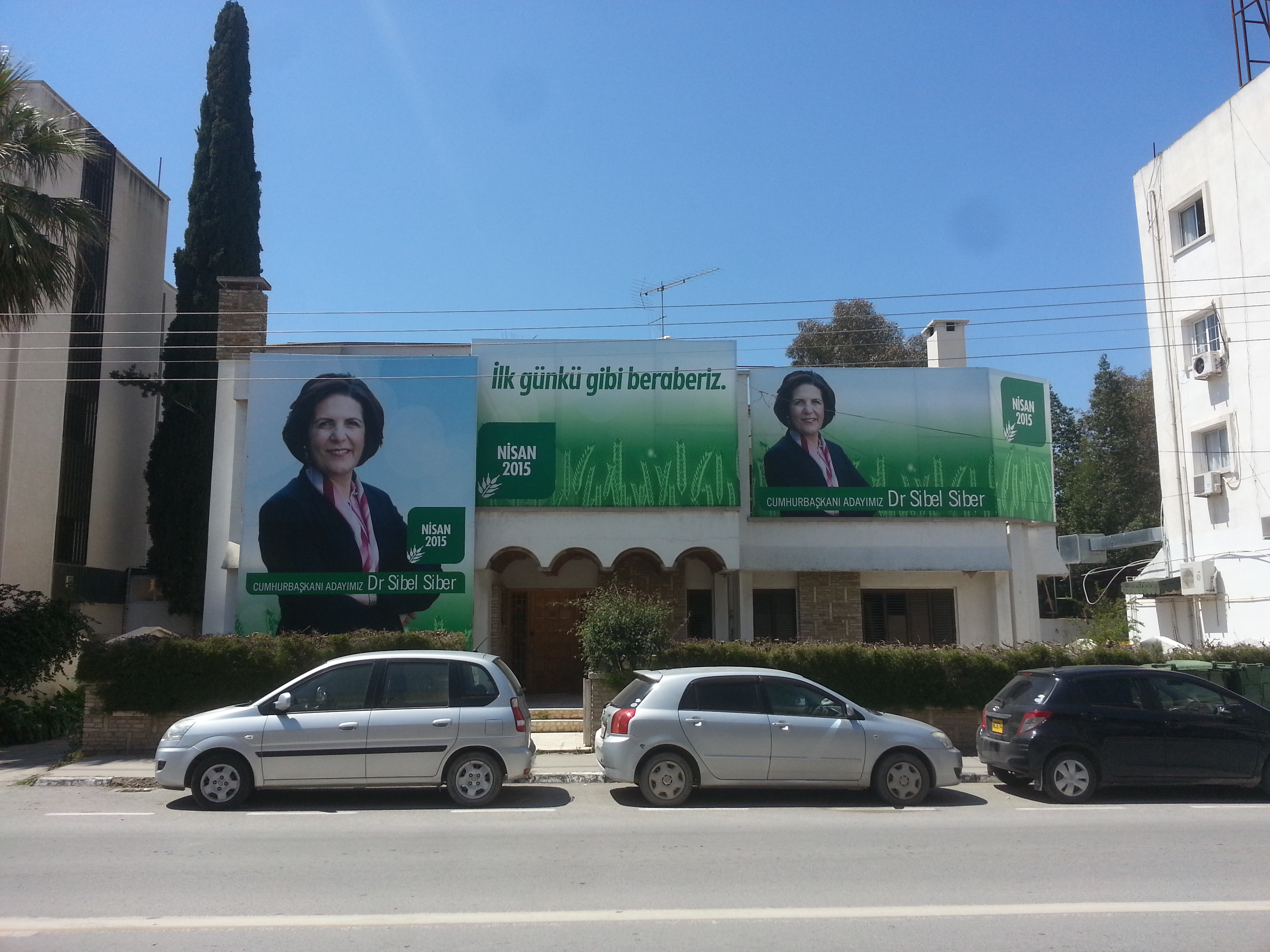 A house with posters promoting Sibel Siber for her 2015 Turkish Cypriot presidential candidacy, in Dereboyu, North Nicosia.